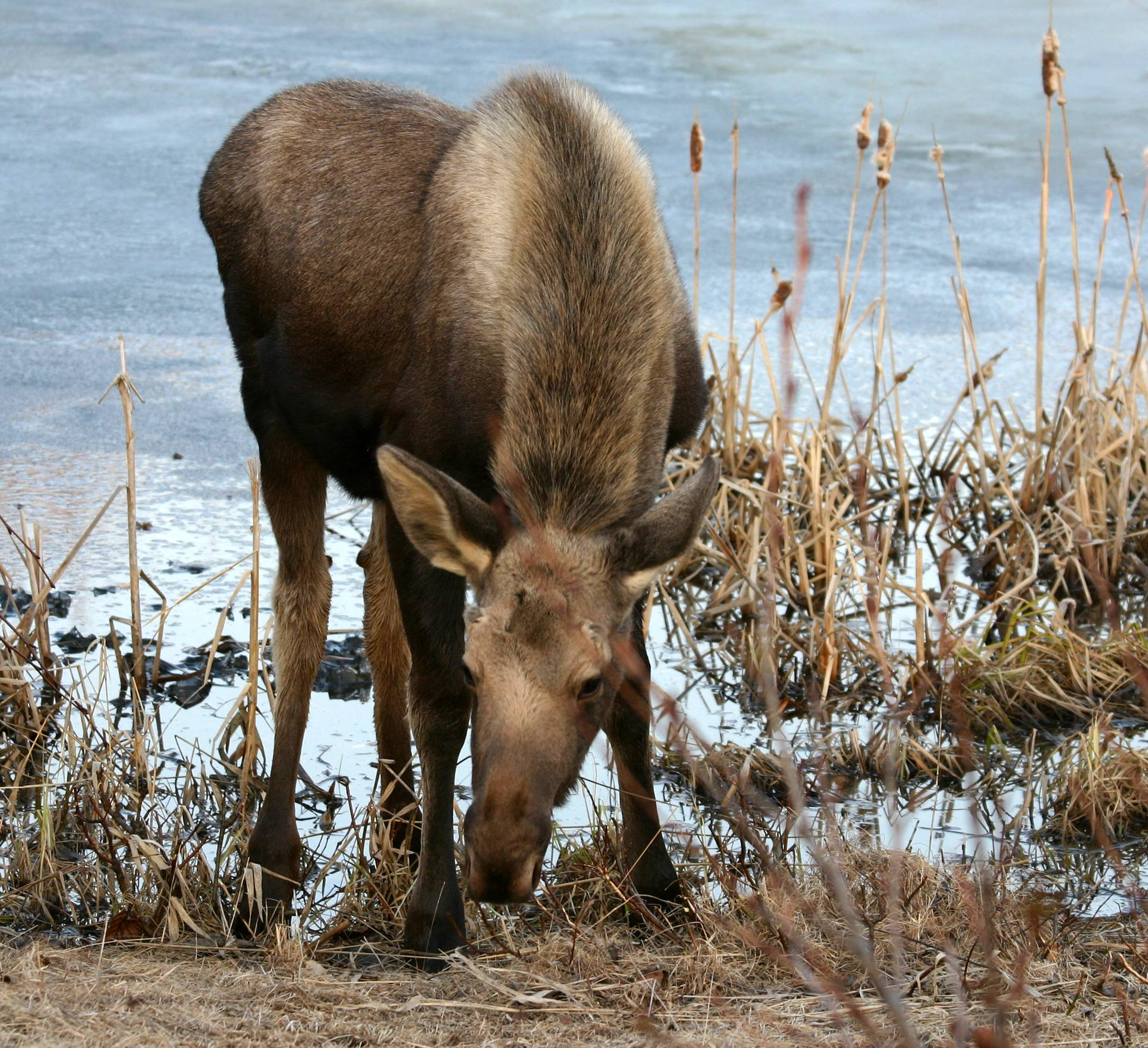 Young moose with the munchies near Point Woronzof, Anchorage, Alaska. Taken at the end of April 2008